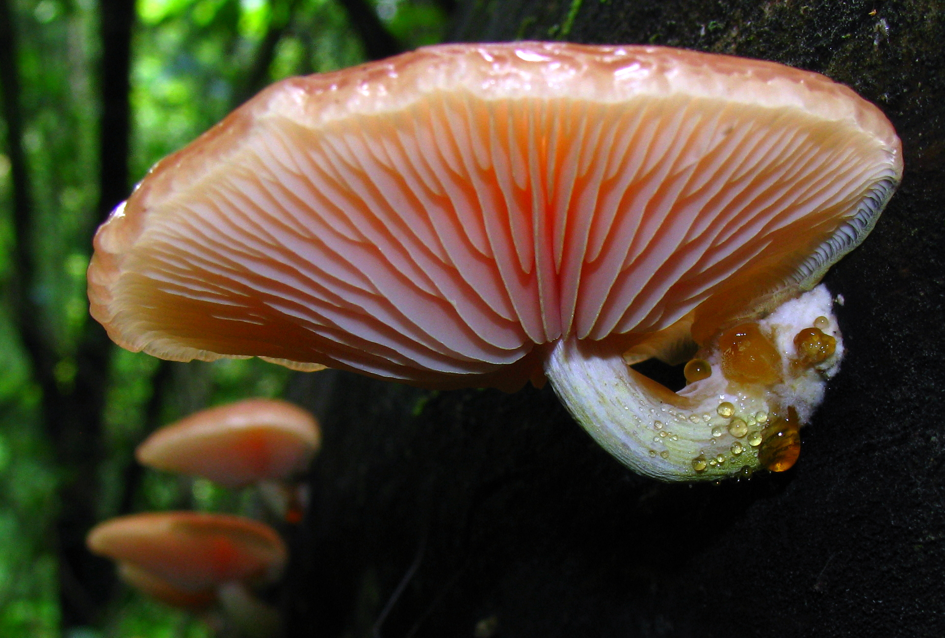 The mushroom Rhodotus palmatus (Bull.) Maire. Specimen photographed in Kinderhook Trail, Wayne National Forest, Ohio, USA. Original photo cropped by uploader.